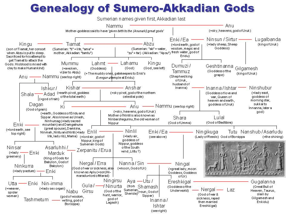 This file shows the Genealogy of Sumerian and Akkadian Gods from Ancient Iraq. It was drawn by me using powerpoint from publicly available textual source material, and converted to jpeg.